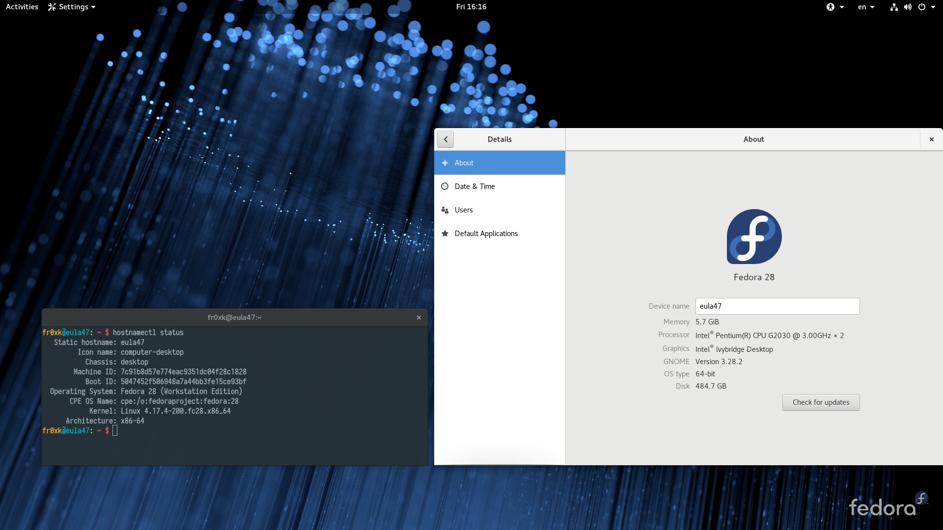 Fedora 28 with GNOME running under Wayland compositor